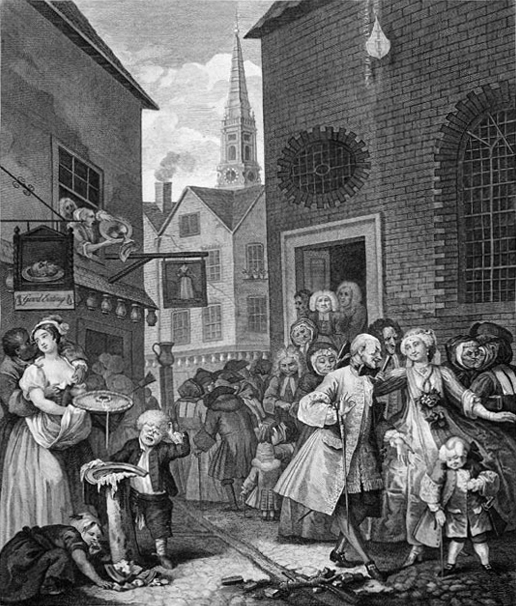 Four Times of the Day: Noon